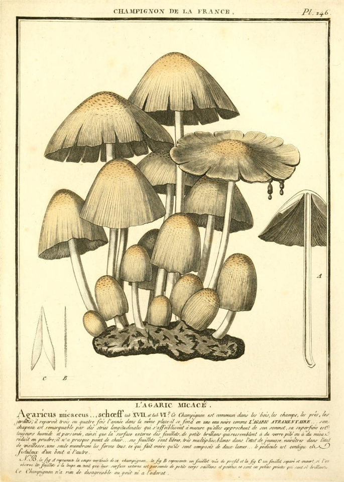 Plate 246 of Bulliard's 1786 "Herbier de la France", showing the mushroom Agaricus micaceus, today known as Coprinellus micaceus.